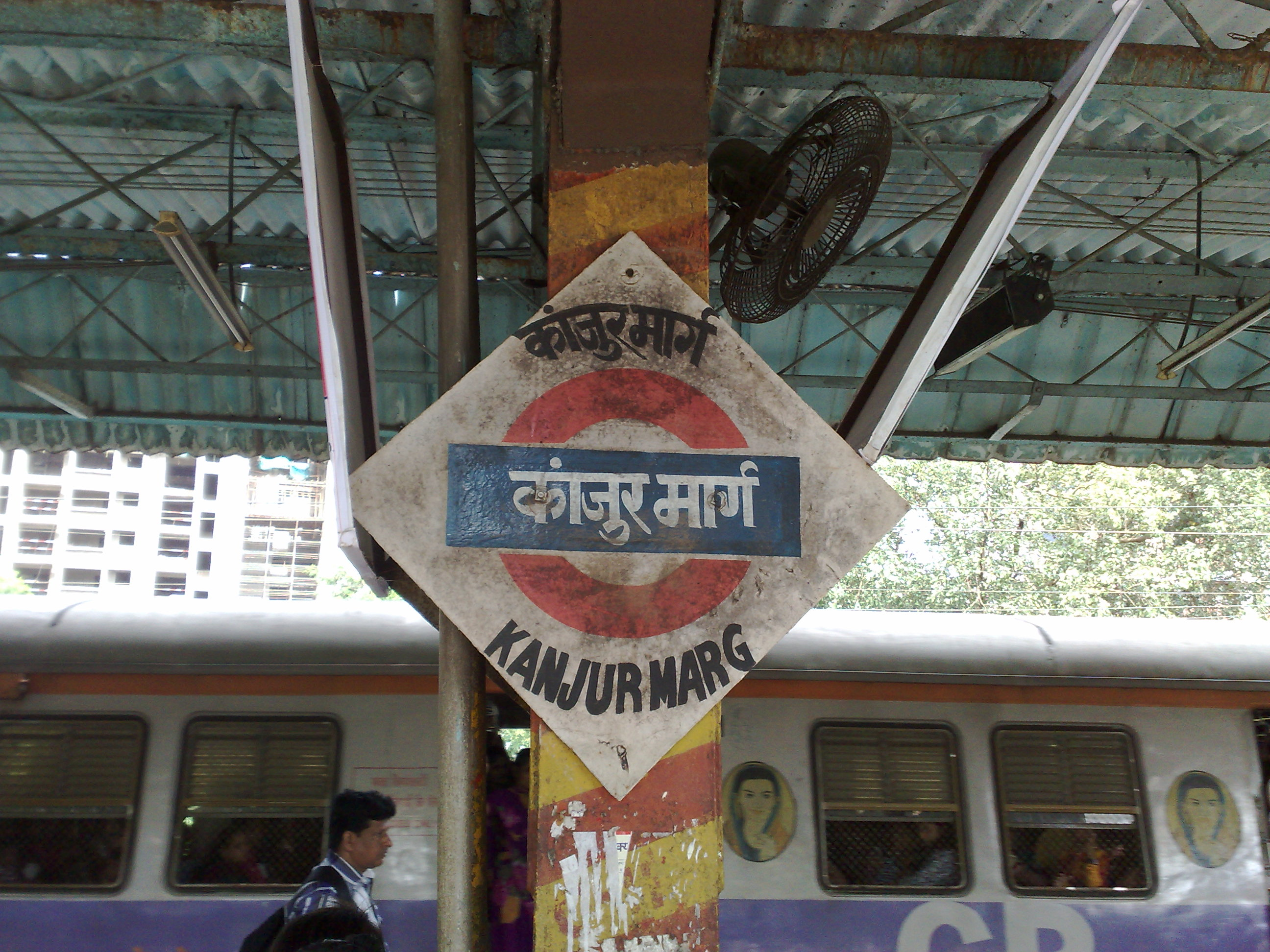 Kanjurmarg railway station - platformboard